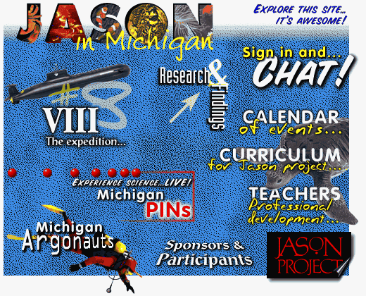 Navigation of the original website was handled all through icons on the main home page.